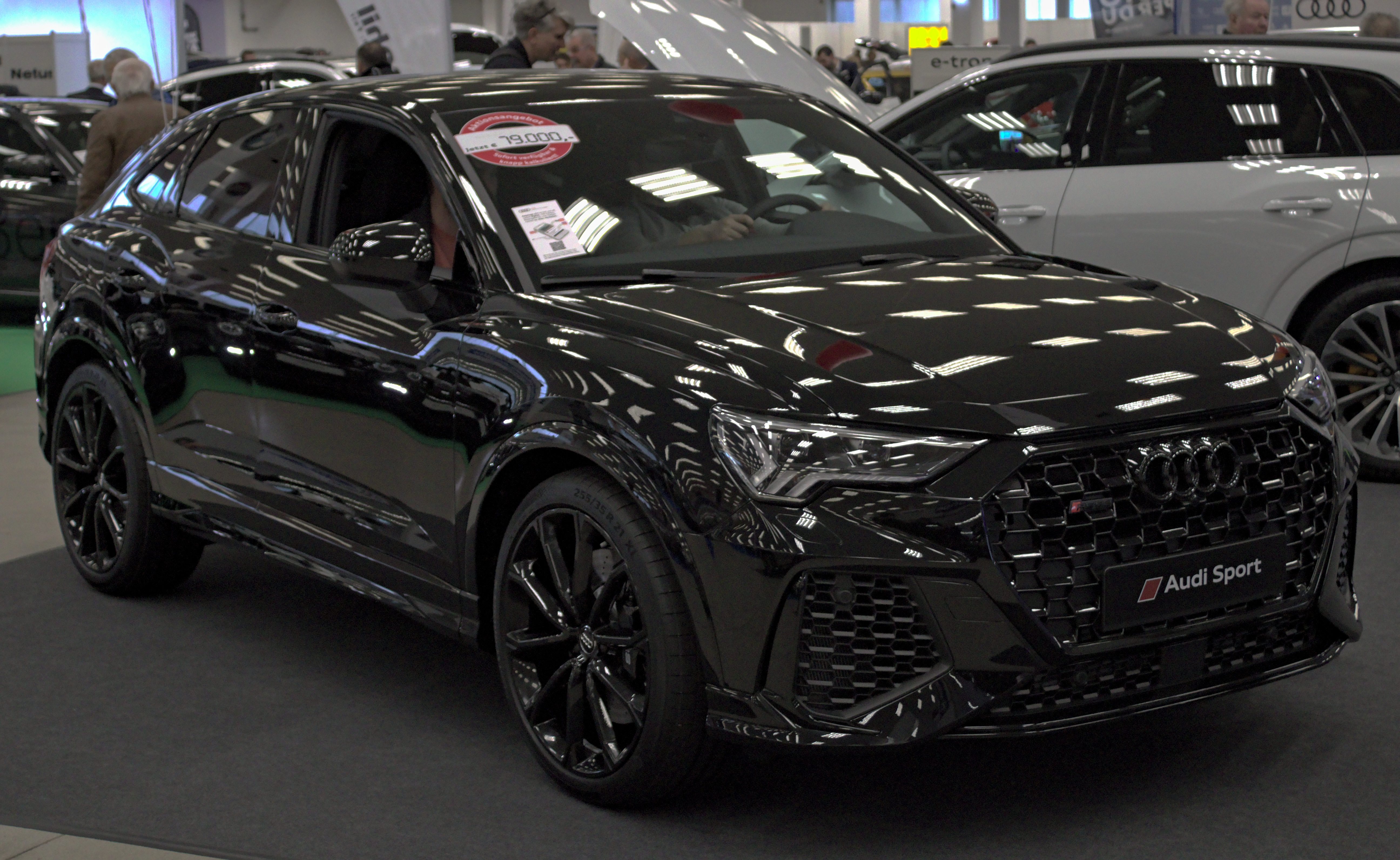 Audi_RS_Q3_Sportback_Sindelfingen_2020